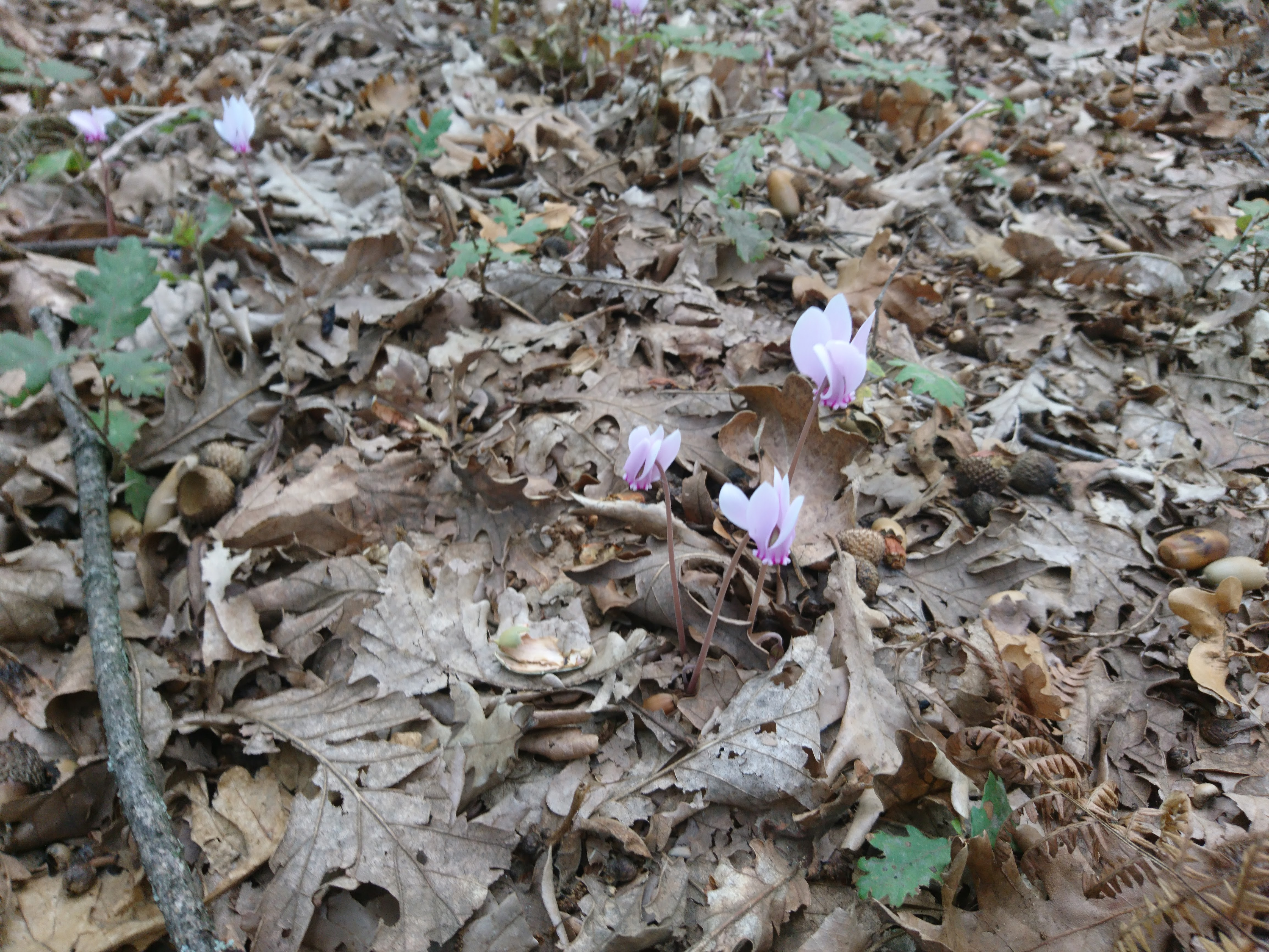 This is a photography of Natura 2000 protected area with ID GR2330002